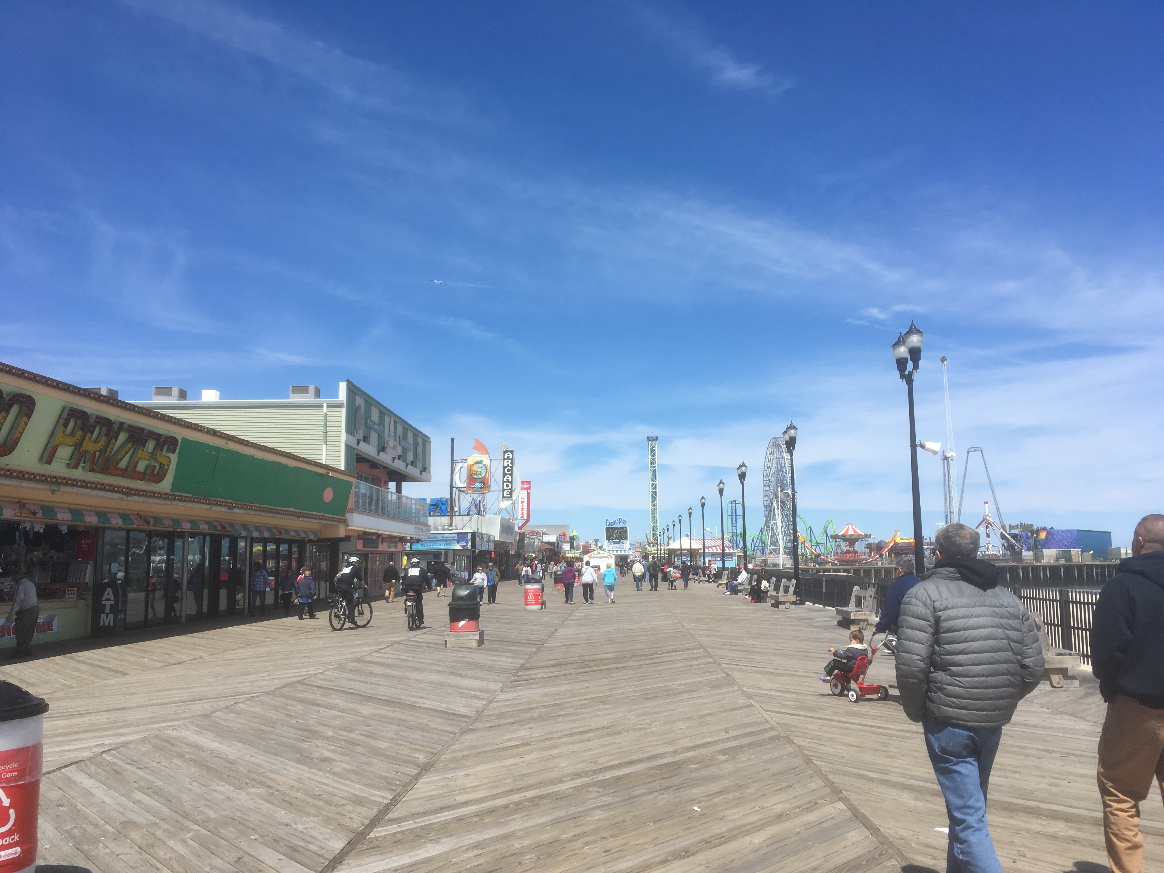 A view of the boardwalk in Seaside Heights, New Jersey looking north toward Casino Pier